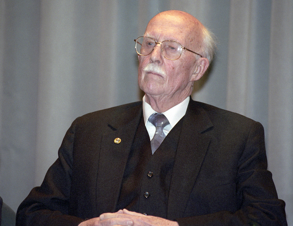 “Winner of "Triumph" prize academician S. Tikhvinsky”. Academician Sergei Leonidovich Tikhvinsky is an orientalist and historian, a merited diplomat of the RF, and winner of the "Triumph" prize for 2001 in the nomination of "Humanities."